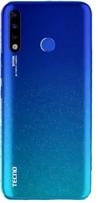 Introducing Techno Spark 4